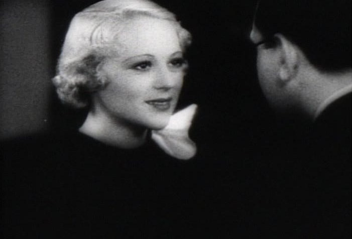 Frame from the public domain trailer for First National's 1933 film Central Airport showing Sally Eilers and Richard Barthelmess